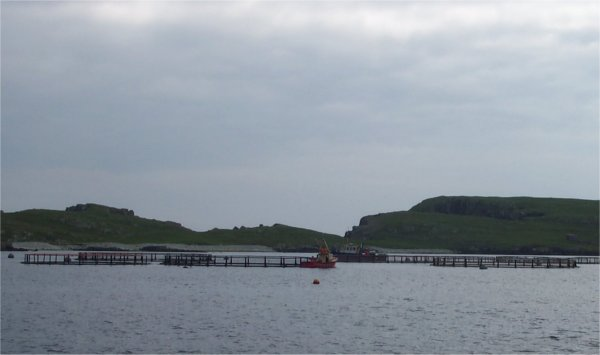 Balta fish farm The organic fish farm (the only one in Shetland) beside the island of Balta at the mouth of Baltasound voe.